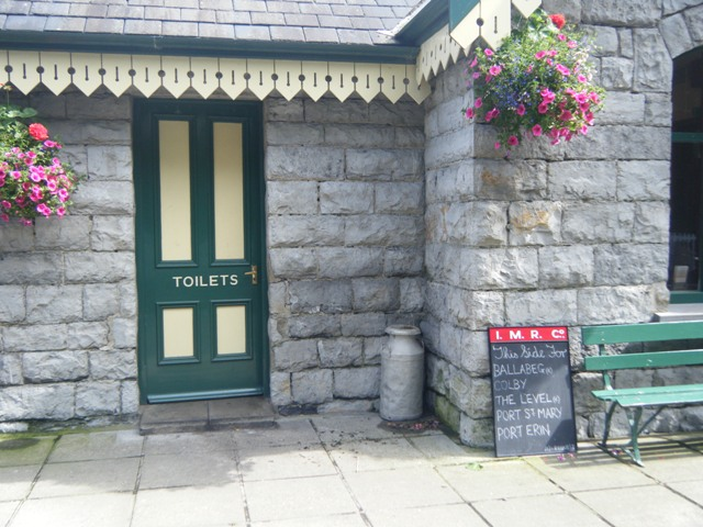 Detail of the building and platform at Castletown Station